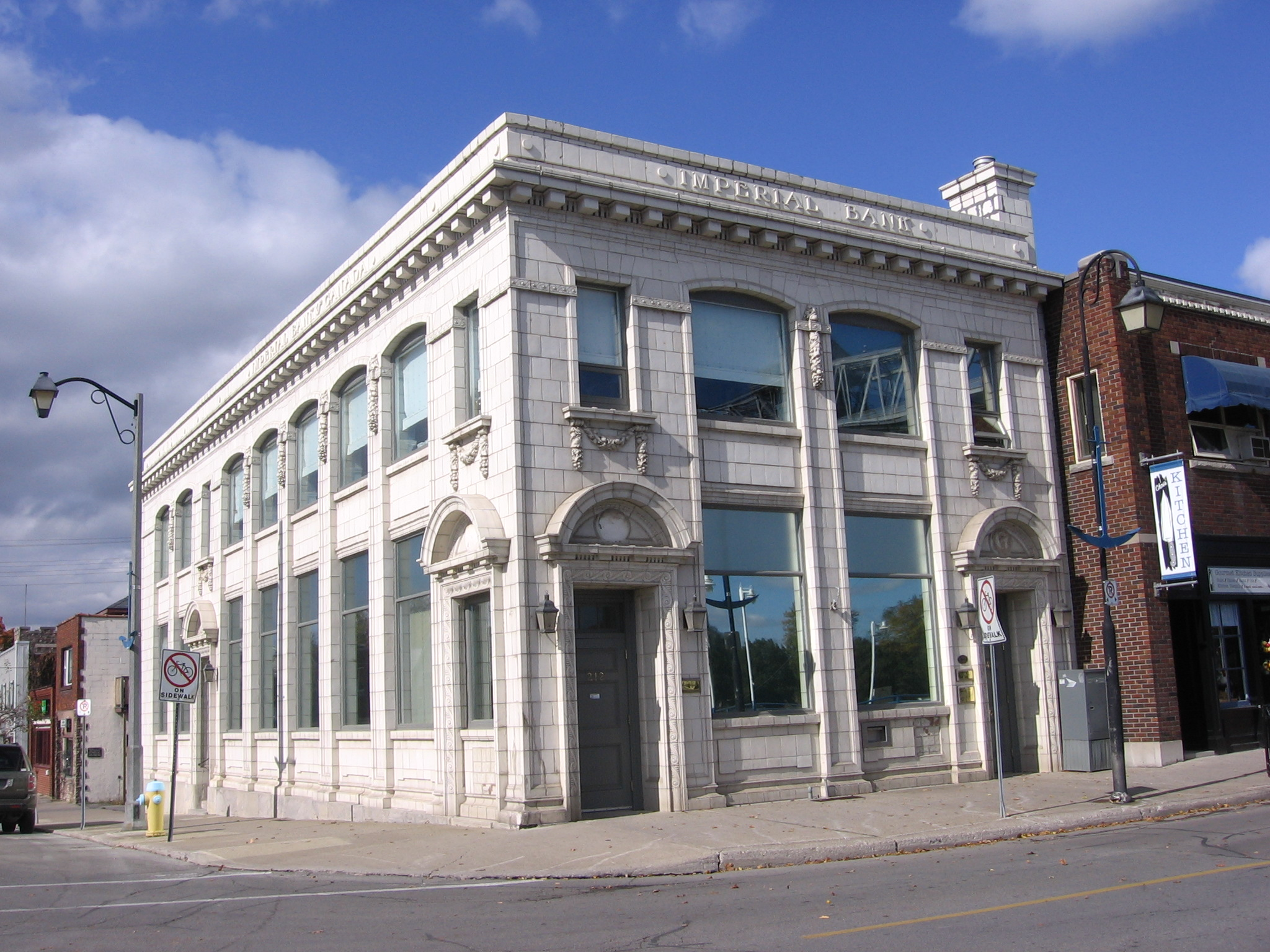 Limestone bank facade in Port Colborne ON